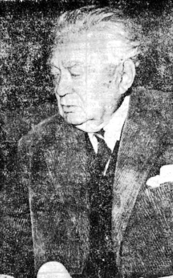 Ivan Ribar (21 January 1881 - 11 June 1968) was a Yugoslav politician of Croatian descent.